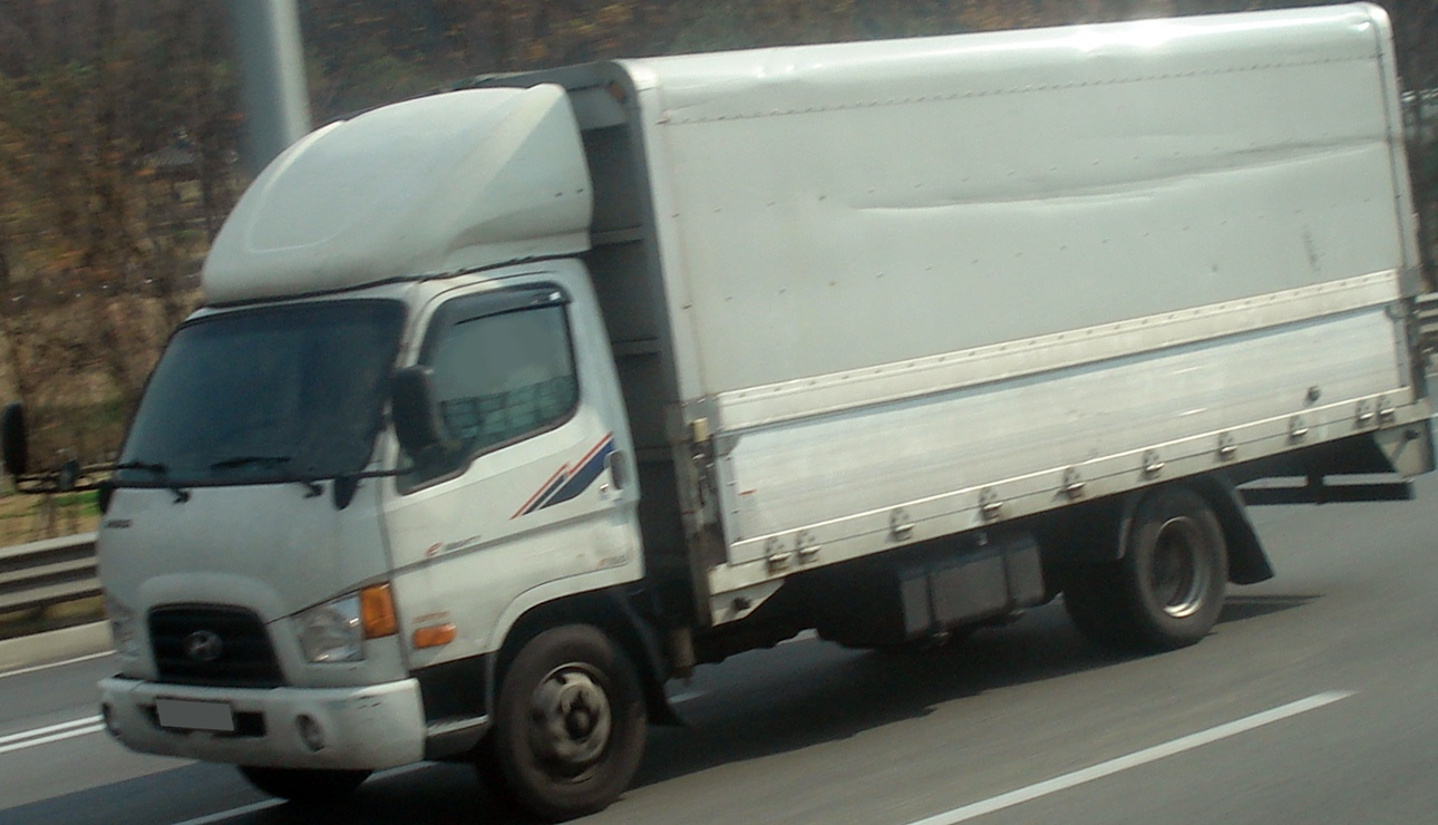 Hyundai e-Mighty